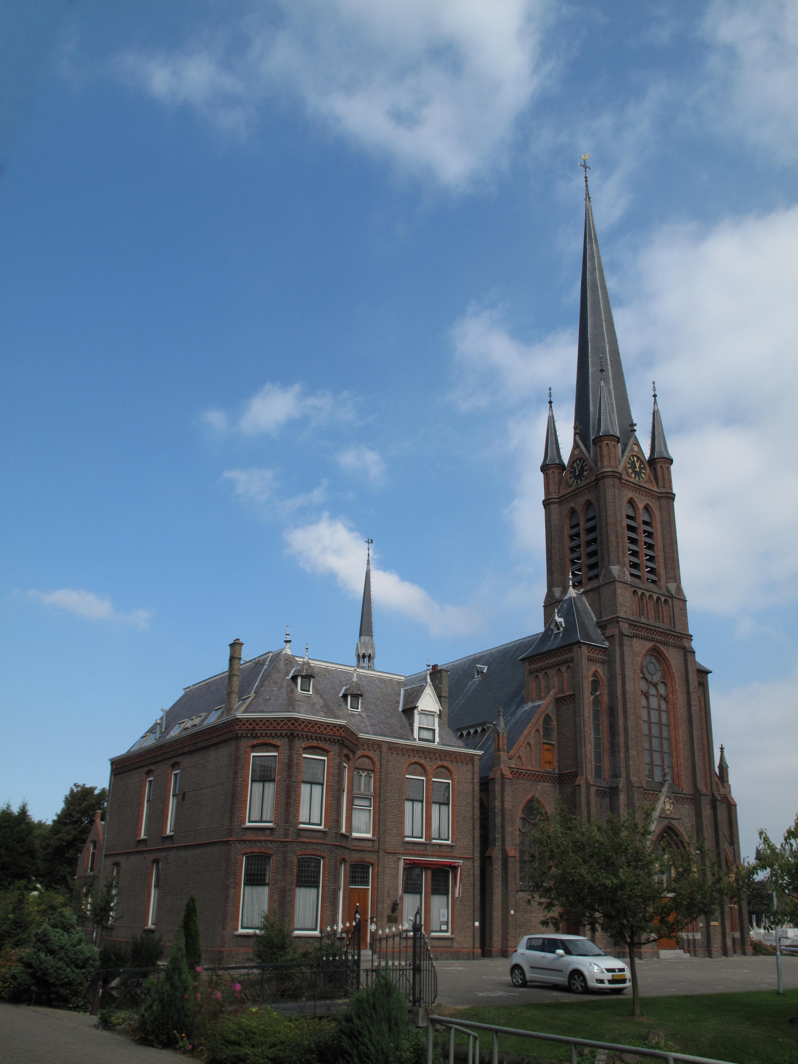 Wateringen, Saint John the Baptist church